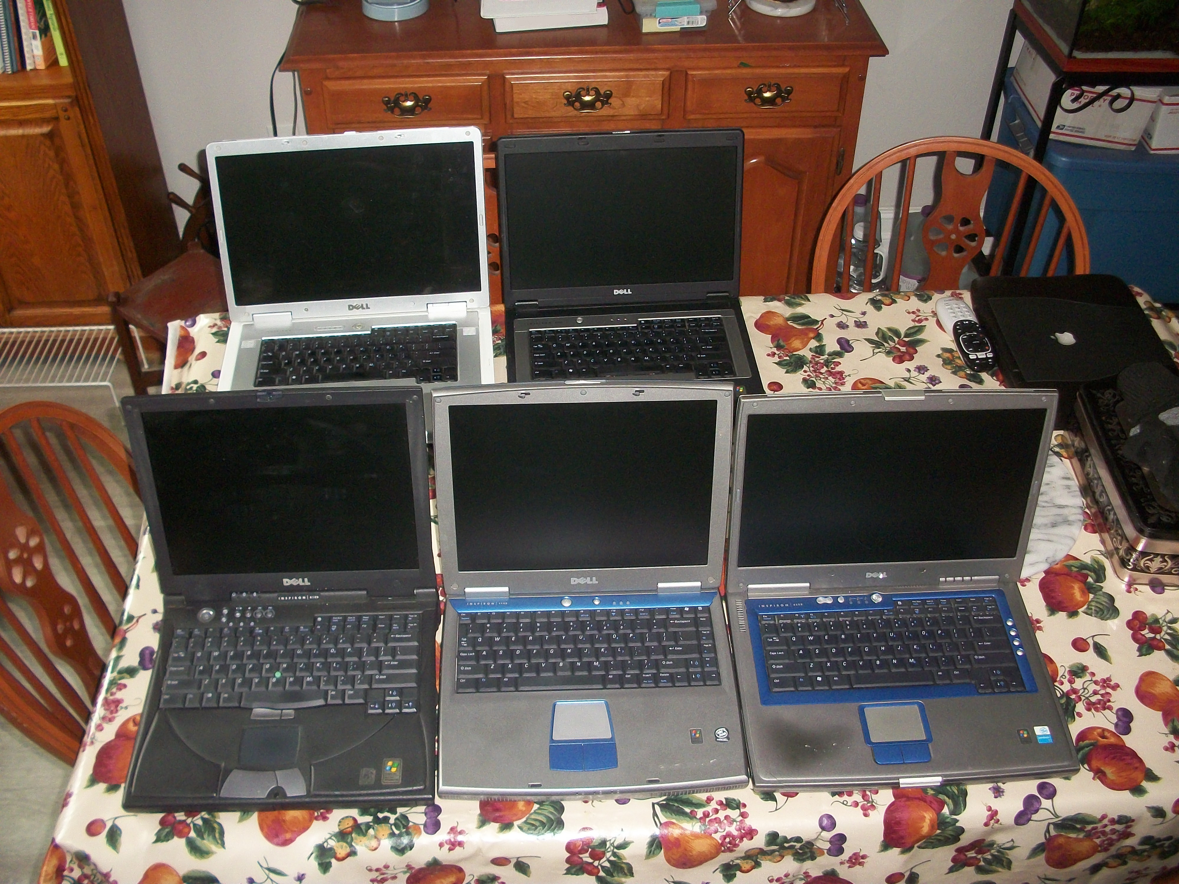 Various older models of Dell Inspirons.